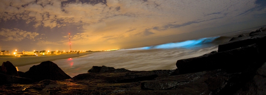 bioluminescent dinoflagellates producing light in breacking waves